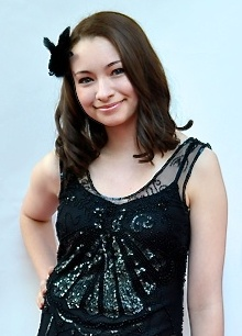 Jodelle Ferland at the 2011 Leo Awards.